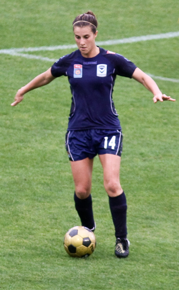 Selin Kuralay playing for the Melbourne Victory W-League team against the Central Coast Mariners.